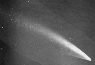 Comet 1910a, taken from Lowell Observatory